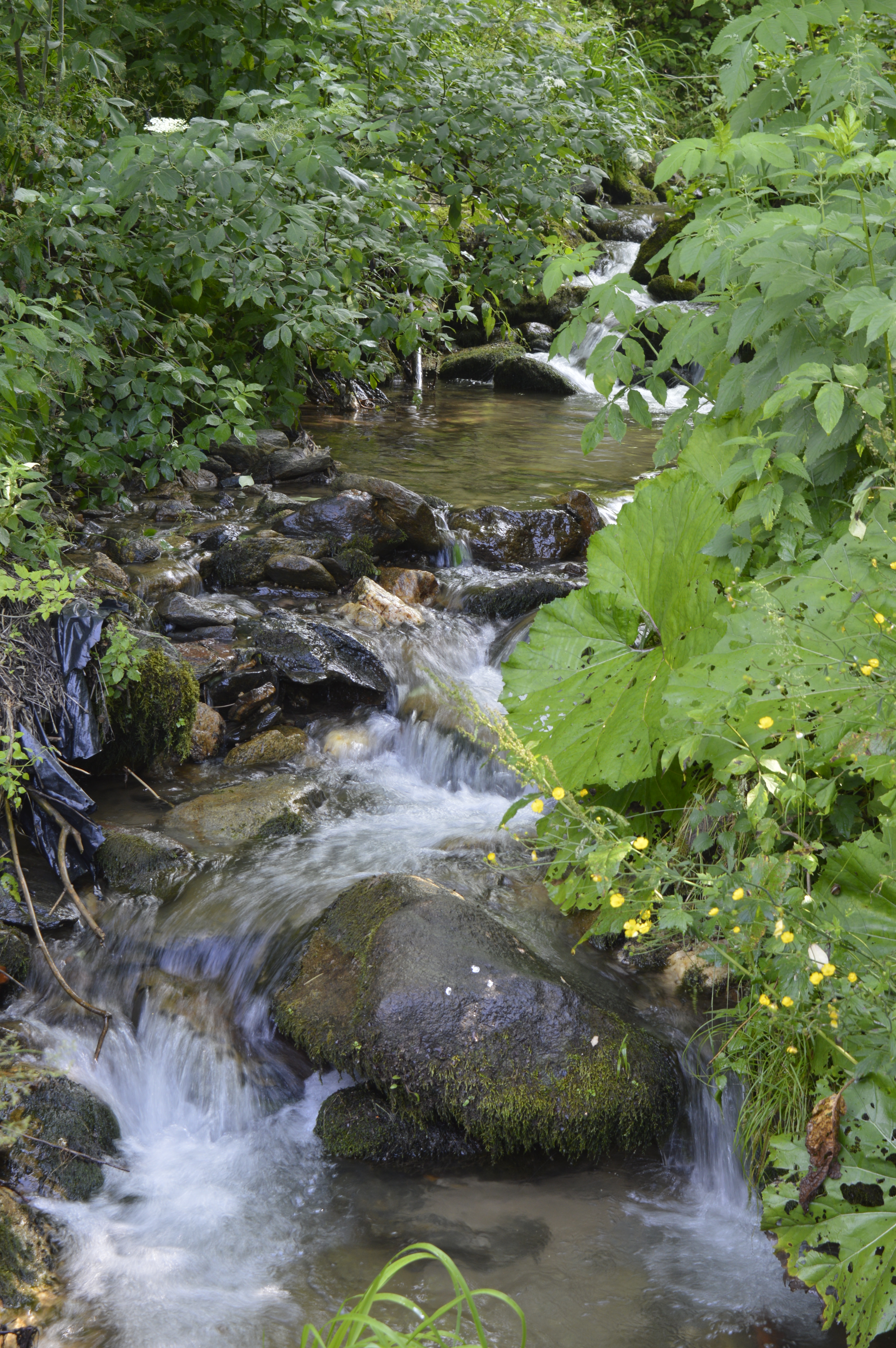 River Kameštica in the village Nežilovo